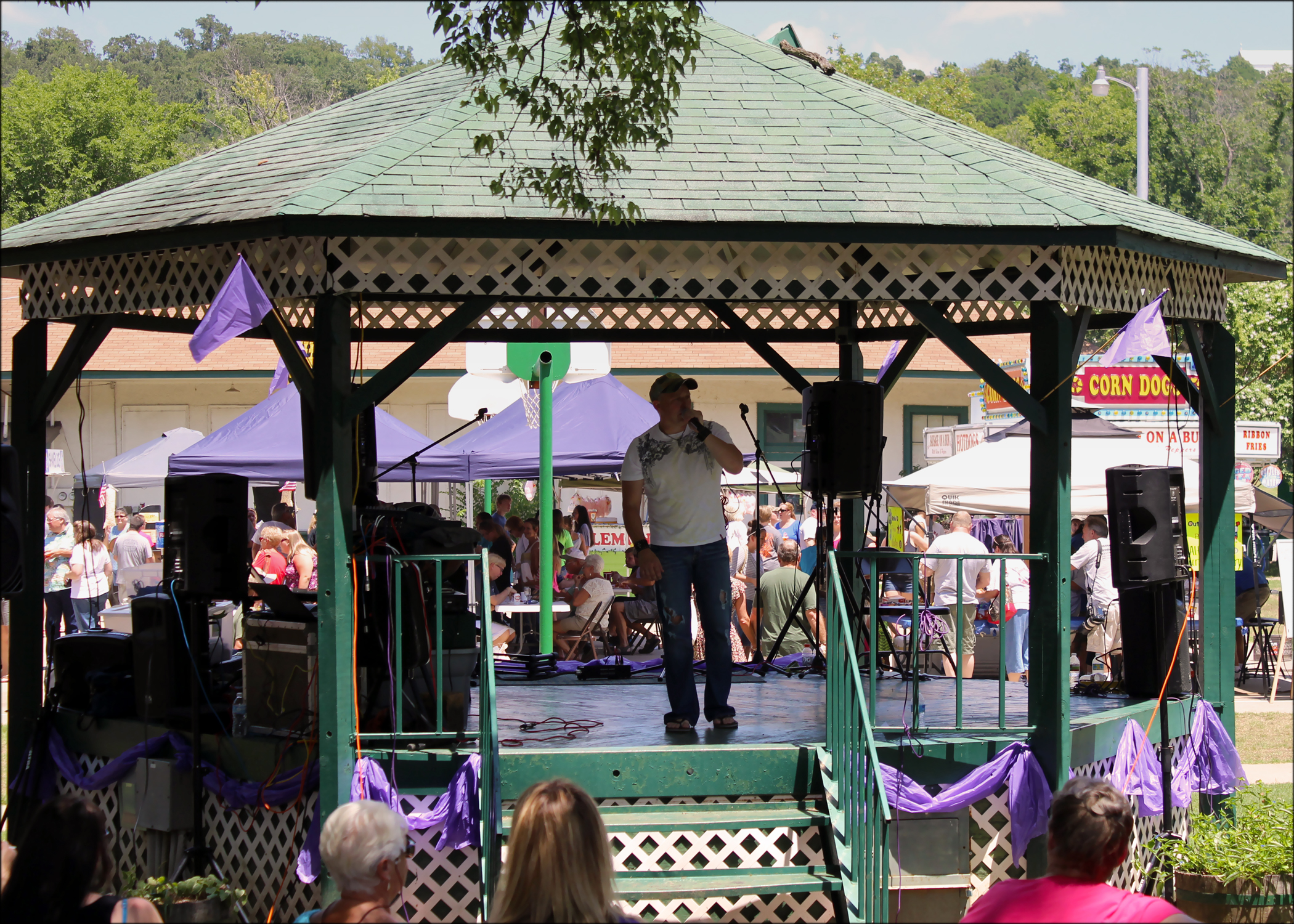 Local entertainers keep the crowd rockin' at the Altus Grape Festival.